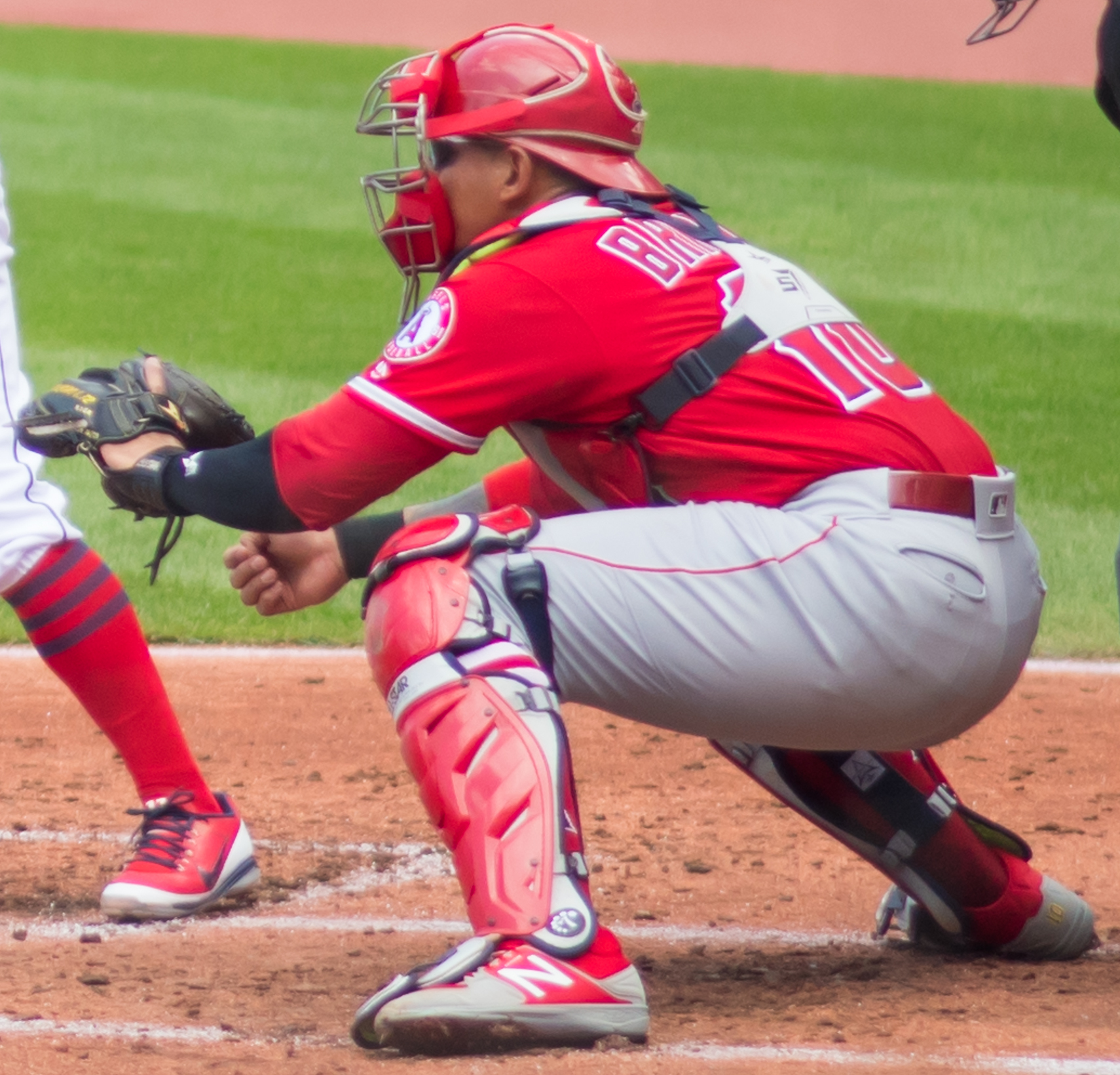 Jose Ramirez bats for the Cleveland Indians during a 2018 game at Progressive Field